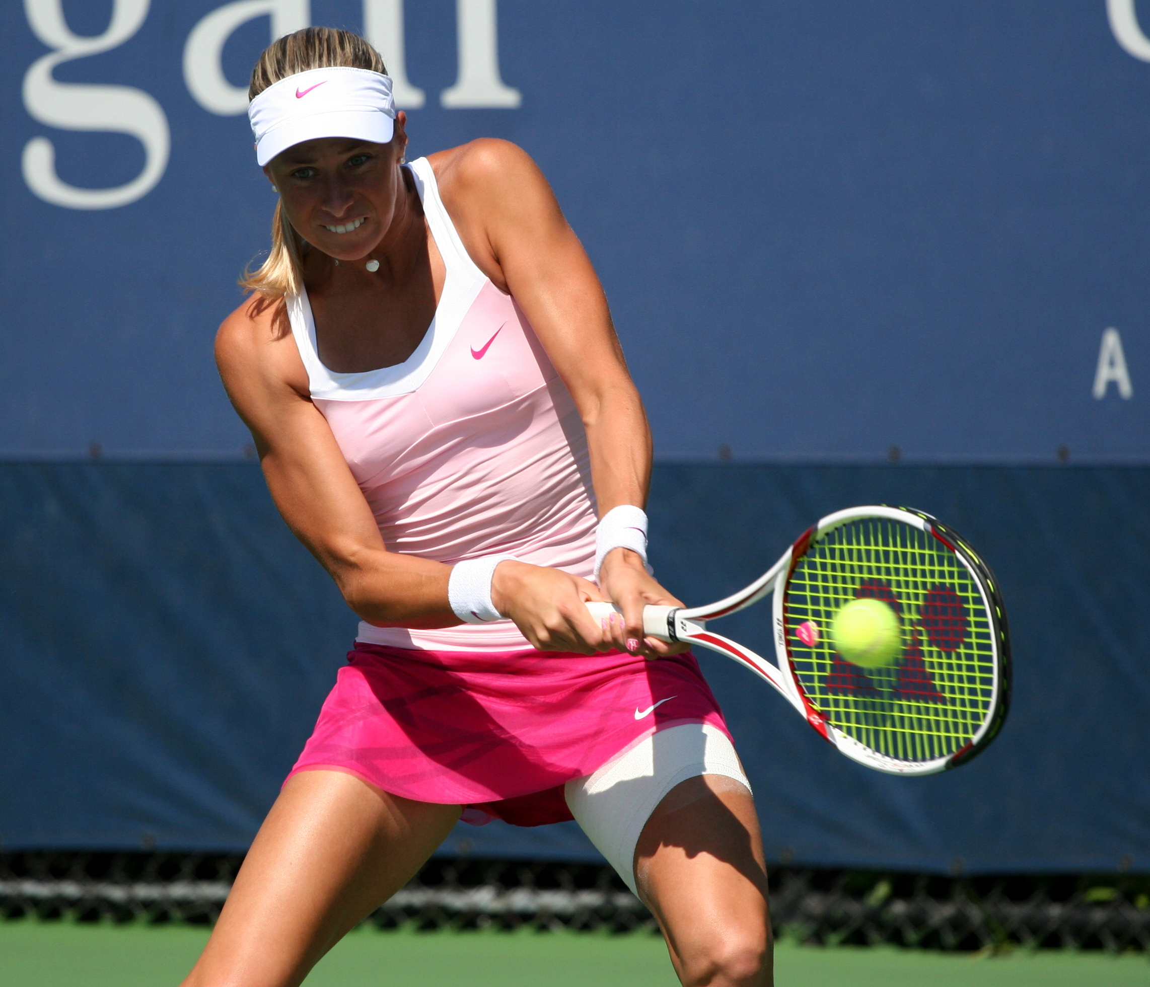 Andrea Hlaváčková at the 2012 US Open